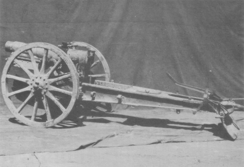 Type 38 120mm Howitzer